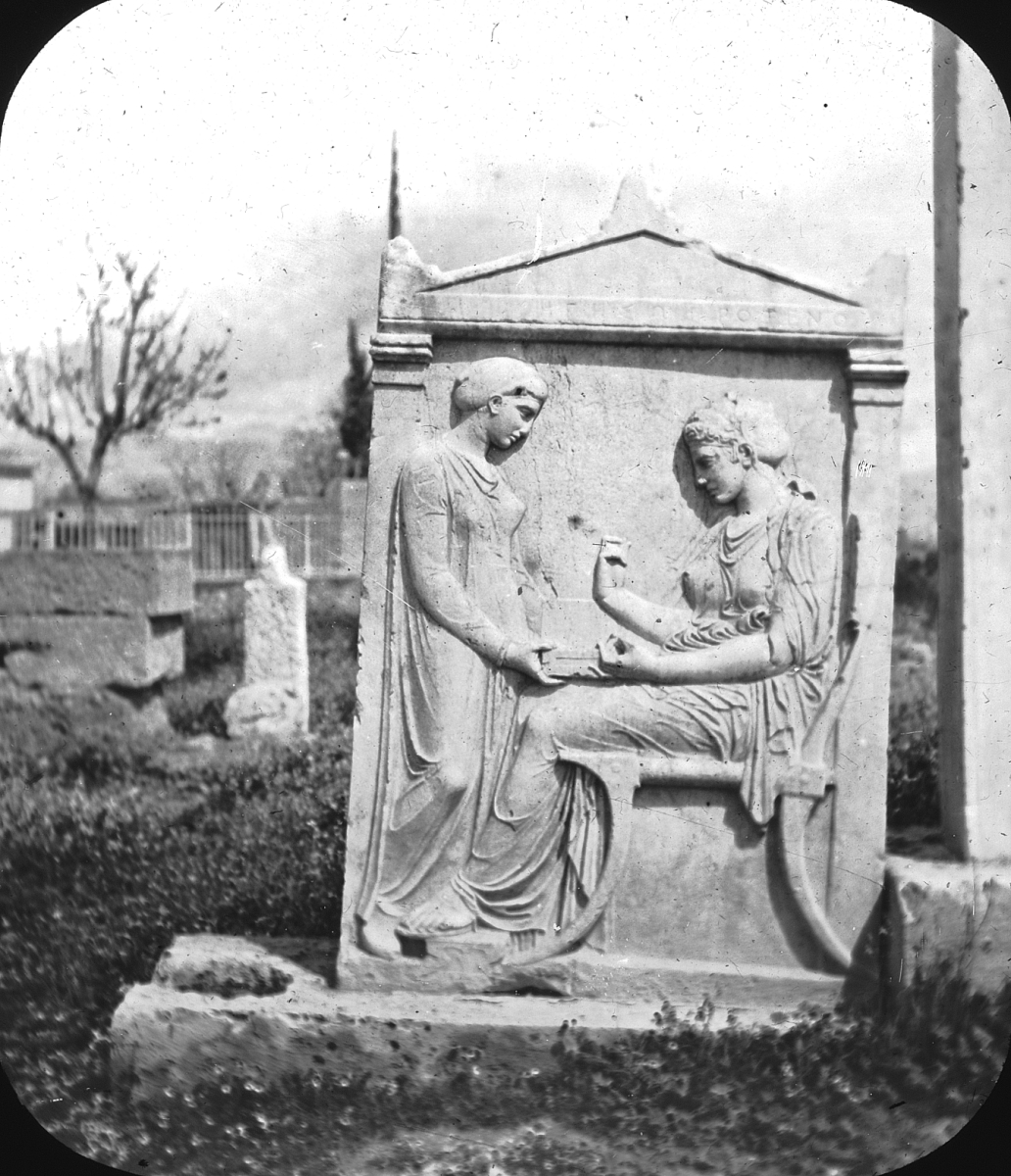 Athens, Greece. Greece - Grave relief of Hegeso, Athens. Brooklyn Museum Archives, Goodyear Archival Collection (S03_06_01_020 image 2417). Help us map this image by using Suggestify to suggest a location for it.